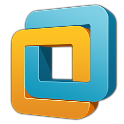 This is the computer icon and logo of VMware Workstation 11.0.